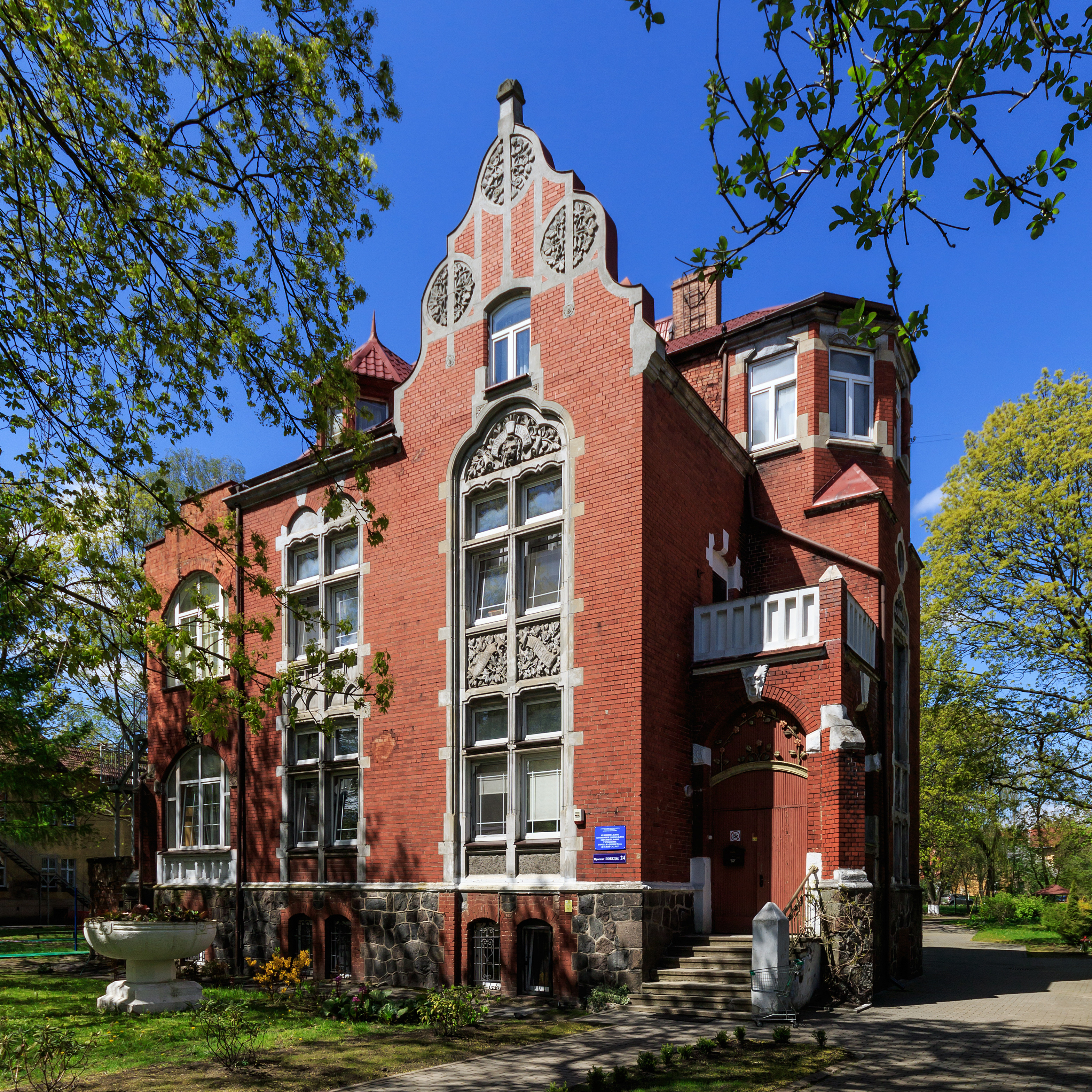 Historical villa (Villa Schmidt) in Amalienau in Kaliningrad formerly Königsberg, Kaliningrad Oblast (Russia).